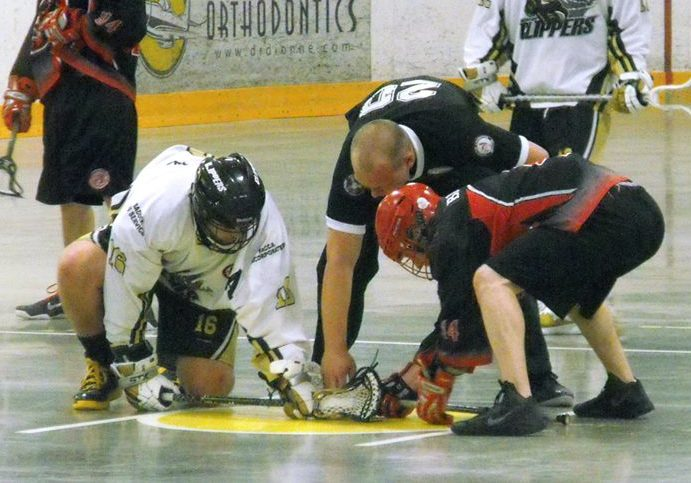 These images of Ontario Junior B Lacrosse Action action during the 2014 season are taken by Devan Mighton.